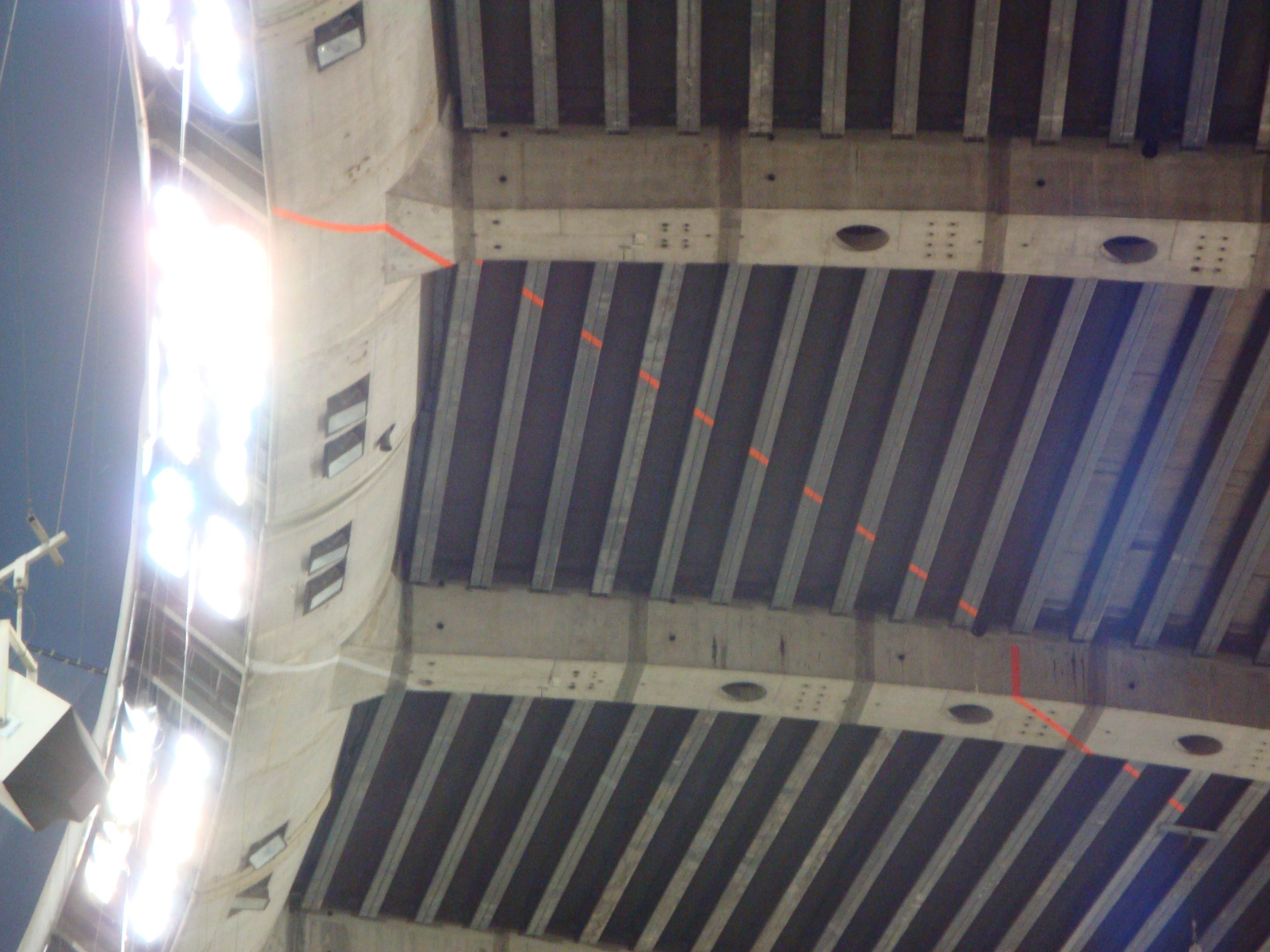 Detail of Montreal Olympic stadium roof showing the foul lines used for baseball. A second, whited out foul line can be seen from before the home plate was moved closer to the stands.